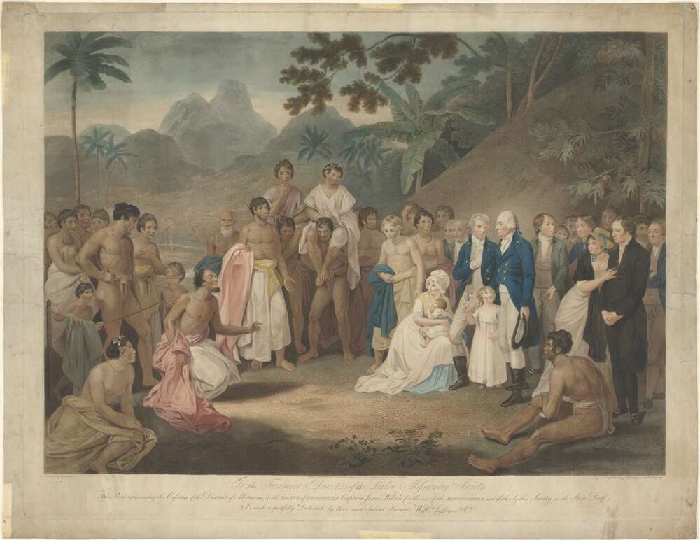 Text reads: The cession of the district of Matavai in the island of Otaheite to Captain James Wilson for the use of the missionaries sent thither by that Society in the Ship Duff / Is most respectfully Dedicated, by their most obedient Servants, Will.m Jeffryes & C.o. London : Published for the benefit of the Missionary Society by W. Jeffryes, [179-?], 1 print : aquatint, hand col. ; plate mark 60 x 78 cm. The original painting by Robert Smirk was commissioned by the Directors of the London Missionary Society in 1798 to commemorate the grant of land to build a mission in Tahiti which occurred in March 16, 1797. In the background is Mt. Aora'i. The dwelling immediately behind the group is Bligh's 'British house'. The end section of the first missionary house is on the right. The identification of the figures in the painting can be found on pages xiii and 32 of Colin Newbury's edited book The History of the Tahitian Mission, 1799-1830, Written by John Davies, Missionary to the South Sea Islands With Supplementary Papers of the Missionaries.